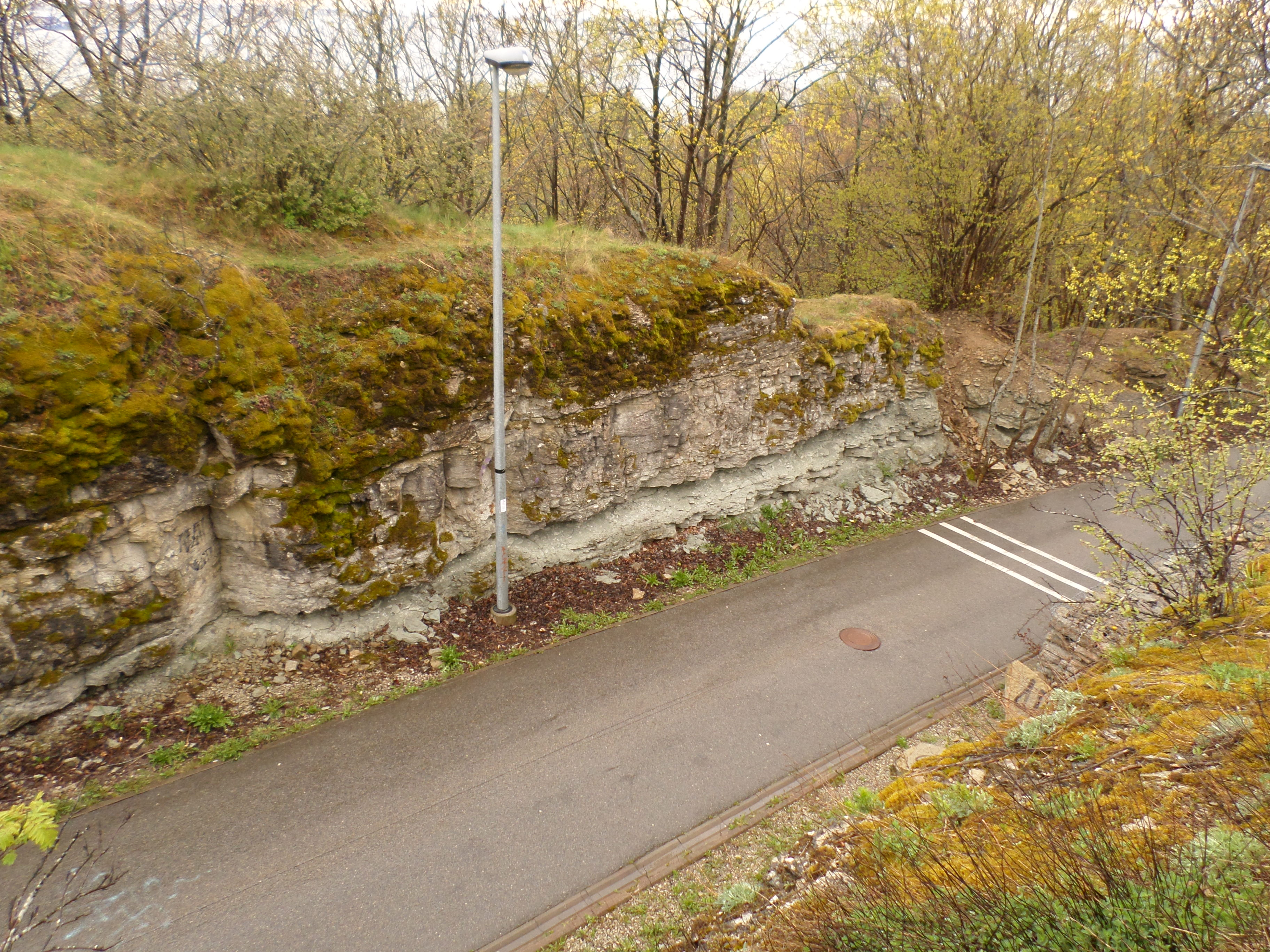 Suhkrumäe outcrop in Tallinn, Estonia.